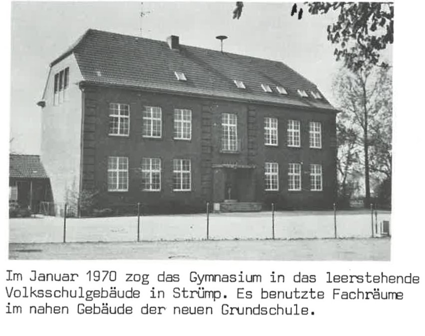 im Januar 1970 zog das Gymnasium in das leerstehende Volksschulgebäude in Strümp.